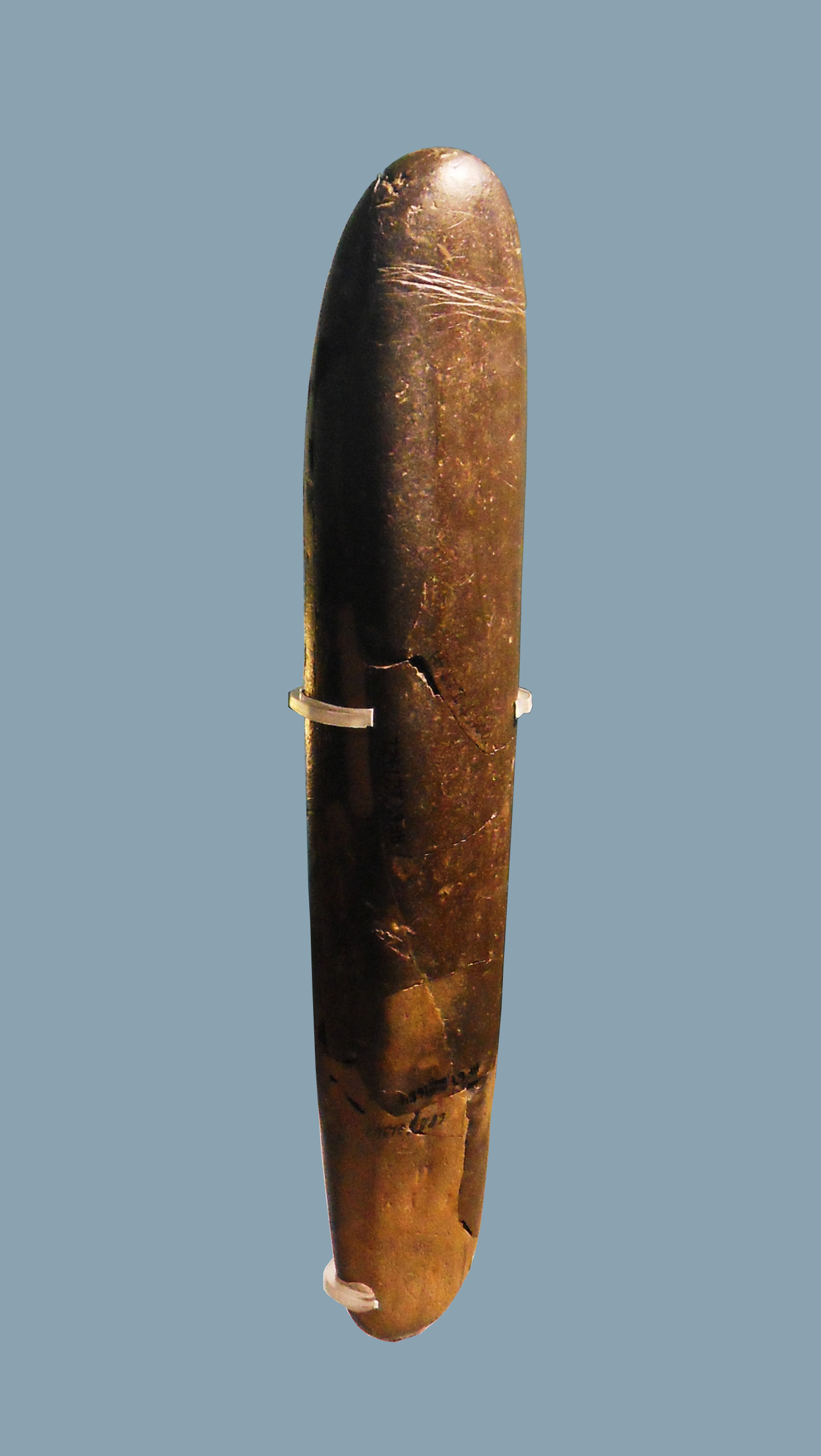 Original Phallus of Schelklingen, Siltstone, Gravettien, aged about 27-30000 years. Discovered in 2004 in cave "Hohler Fels" in the Ach Valley near Schelklingen, Germany. Picture was taken at Prehistoric Museum, 89143 Blaubeuren, Germany, 2010-07-18.